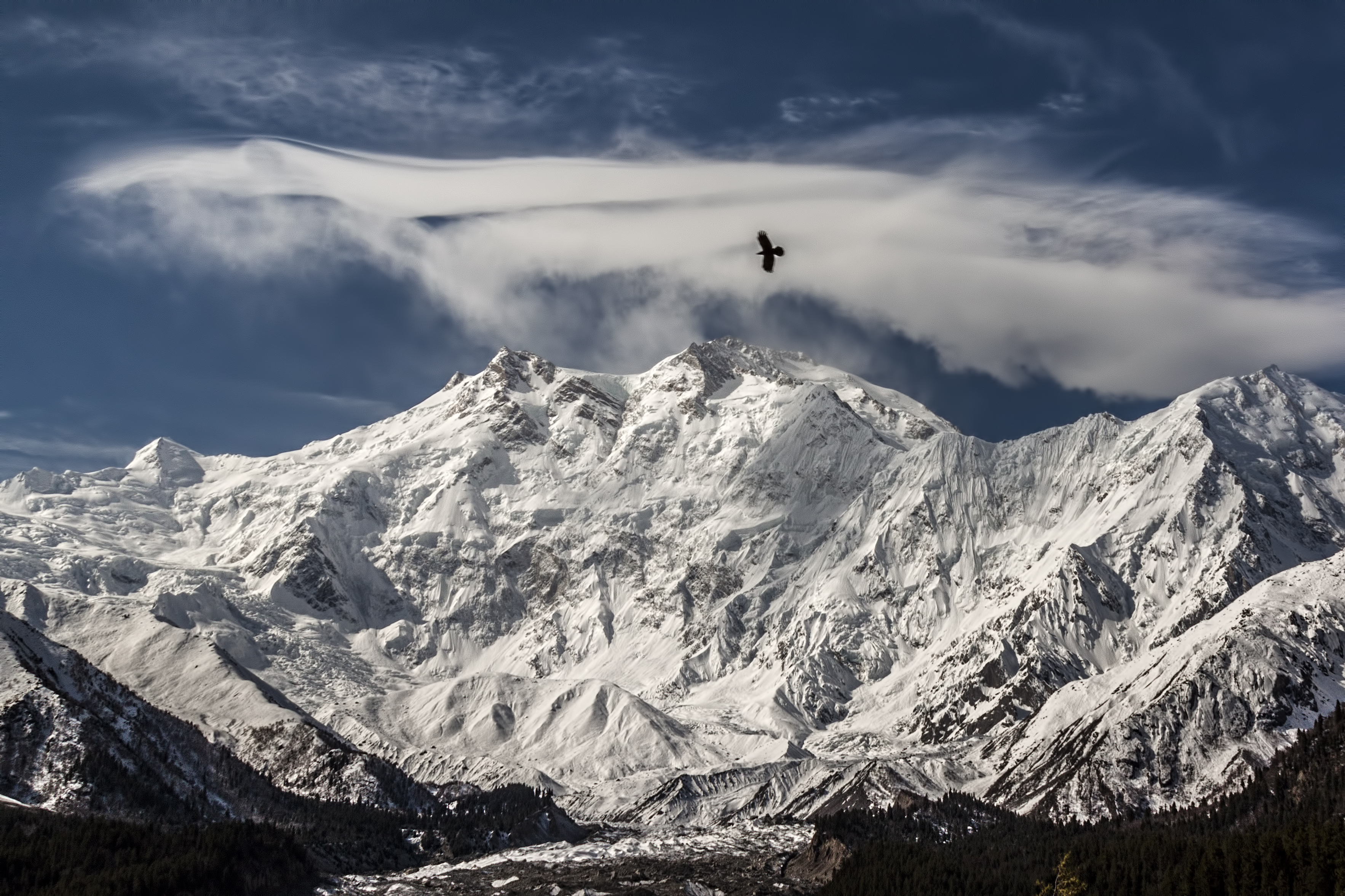 Nanga Parbat (Naked Mountain) is the world's 9th highest mountain and the 2nd highest in Pakistan (after K2). Shot from Fairy Meadows, the Raikot (Rakhiot) Face on the northern side is quite imposing.